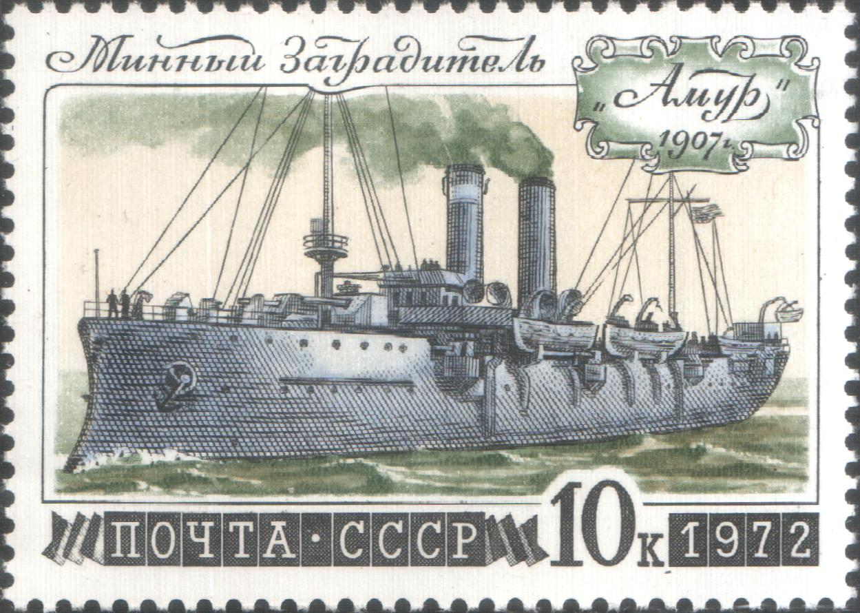 USSR stamps